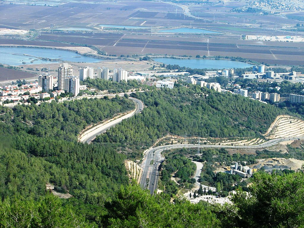 Some neighbourhoods of Nesher and part of the Zvulun Valley, from west.